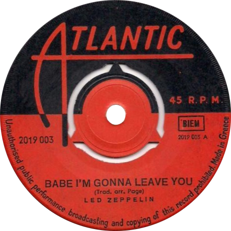 Side-A label of the Greek retail vinyl single "Babe I'm Gonna Leave You" (2019 003) by Led Zeppelin